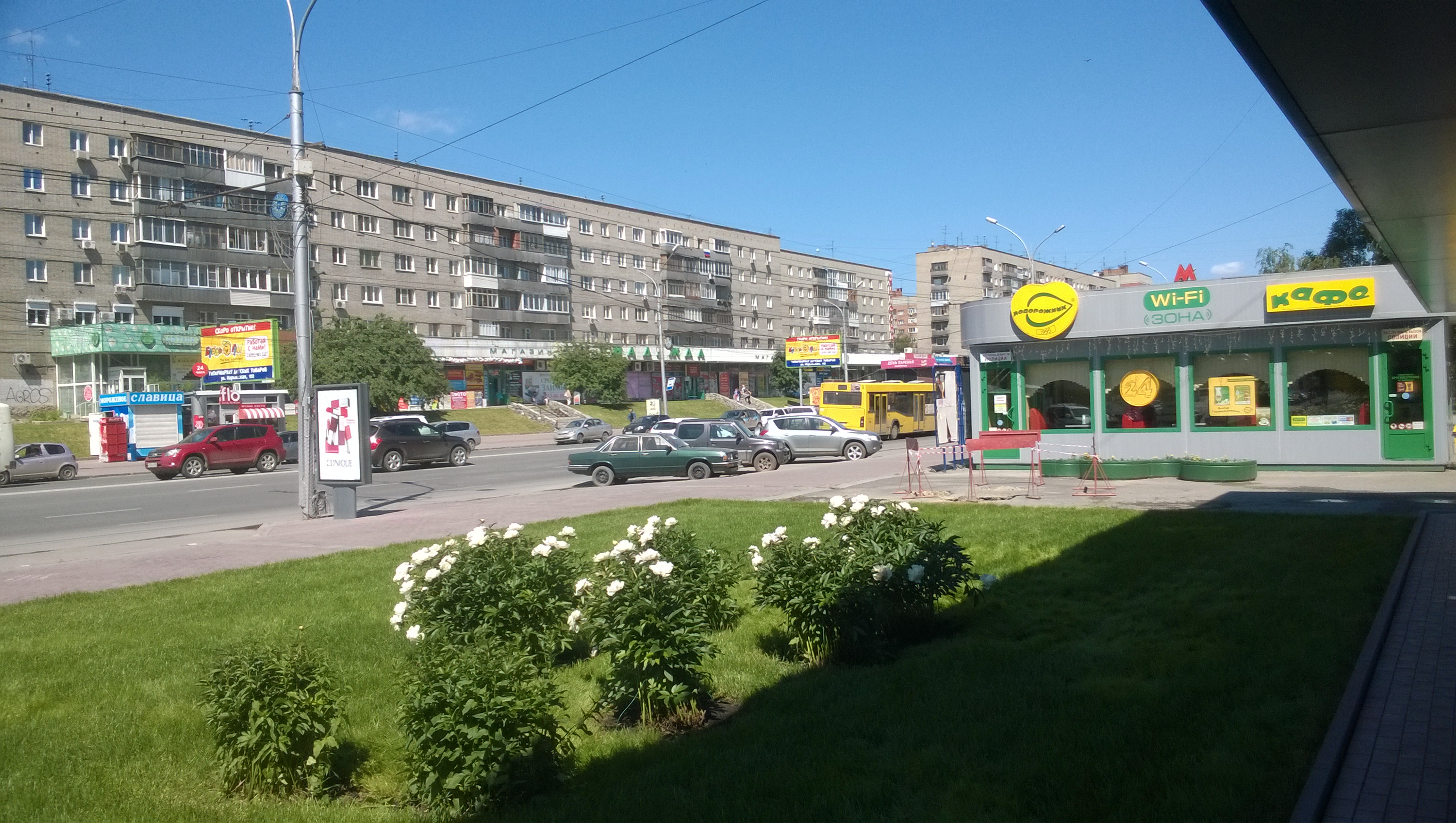 Red avenue in Novosibirsk.